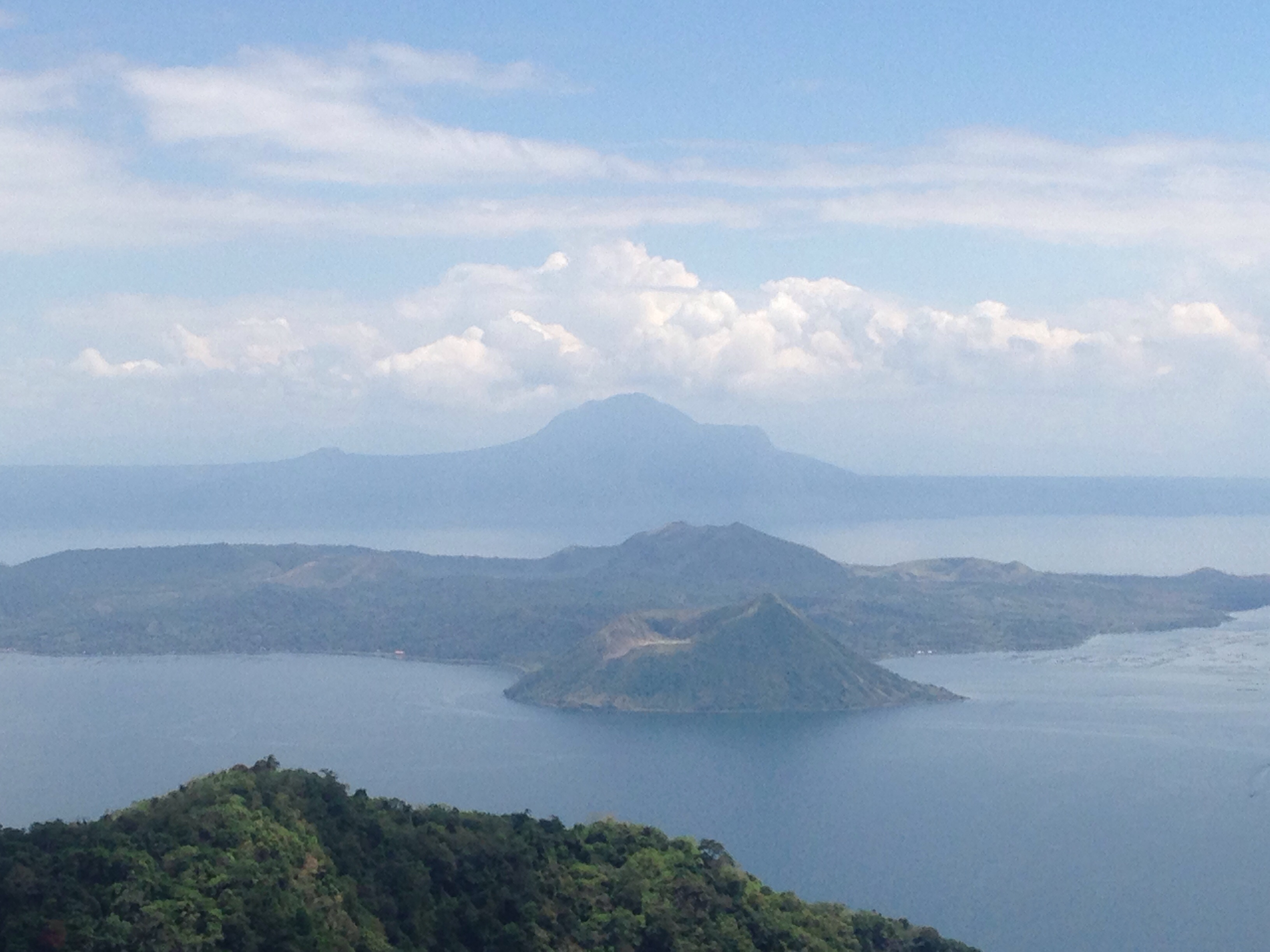 Taal Lake view from Taal Vista Hotel, Tagaytay, Cavite, Philippines